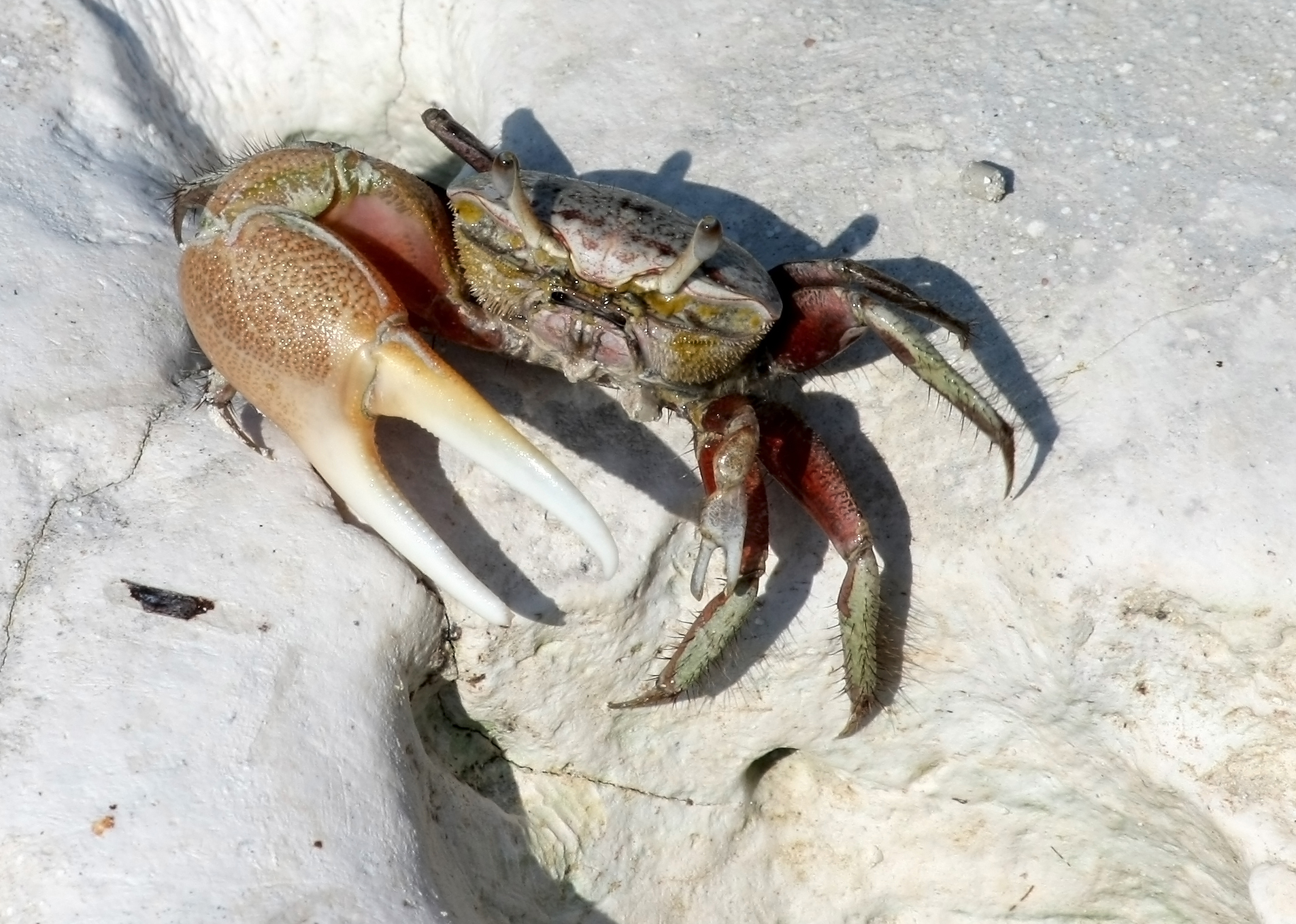 A fiddler crab at the entrance of its burrow.